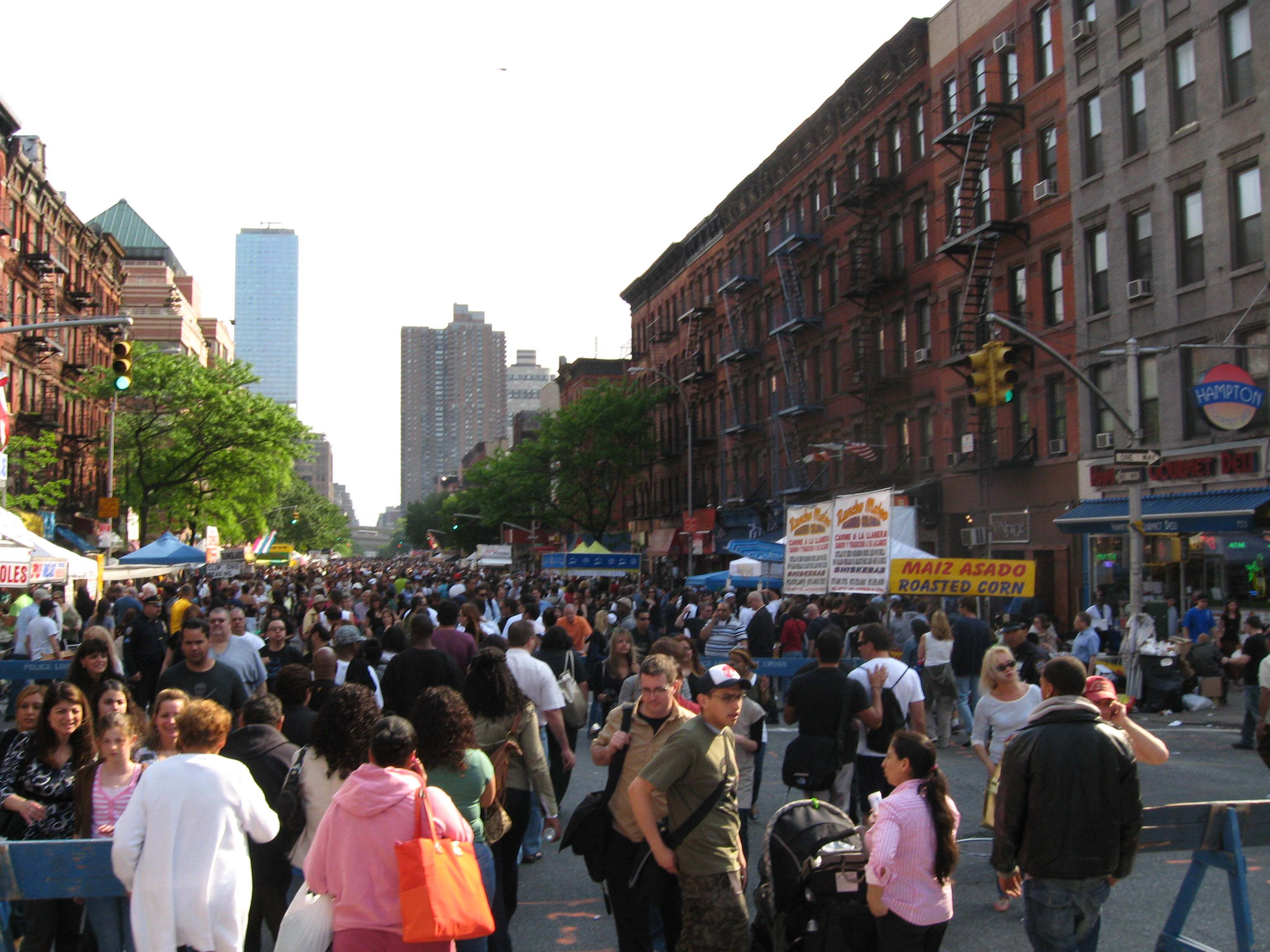 Looking south on Ninth Avenue (Manhattan) during a late morning International Food Festival before the rain started.